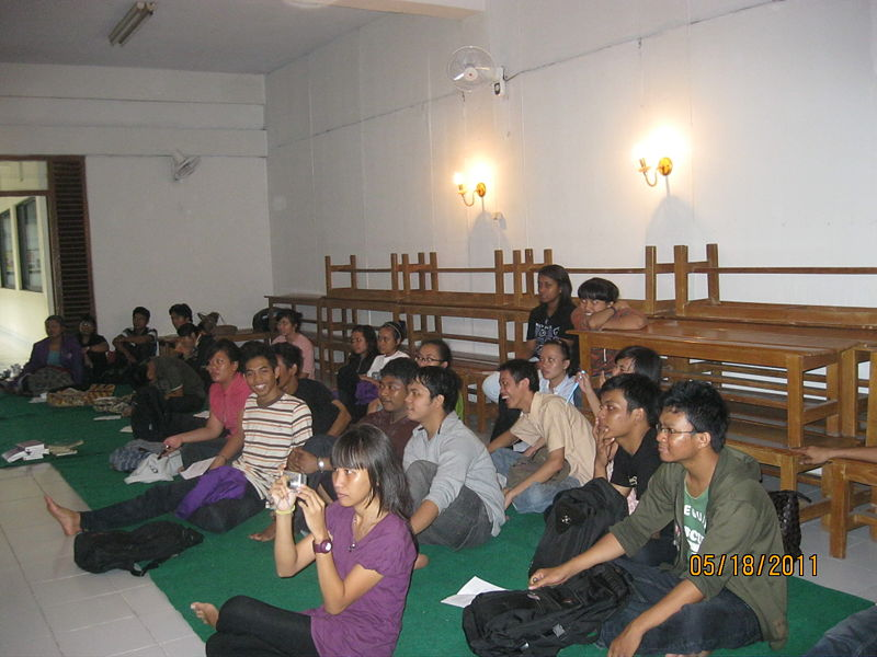 Closing ceremony of Beacon of Theology